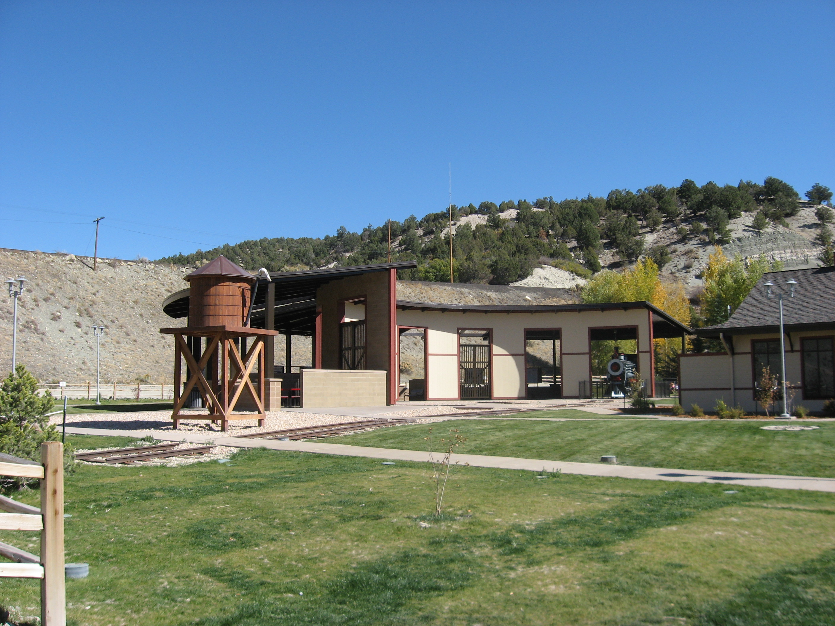 Tie Fork rest stop Hwy 6 Utah (roundhouse area in the back of the main building)